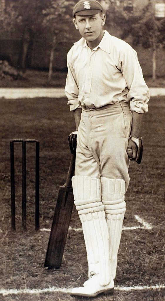 Sport, Cricket, H,D,G, Leveson Gower (Oxford University) and Surrey, Born 1873, died 1954, Middle order right hand batsman and leg break bowler, Following a successful playing career he became a noted cricket administrator, joining the test selection committee in 1909, He also served the committees of MCC and Surrey, becoming Surrey President in 1929, He was knighted for his services to cricket in 1953 - a year before he died